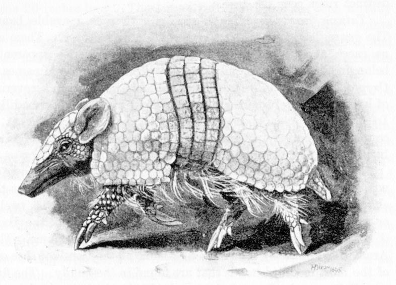 Fig. 103.—Three-banded Armadillo or Apar. Tolypeutes tricinctus. × ¼.